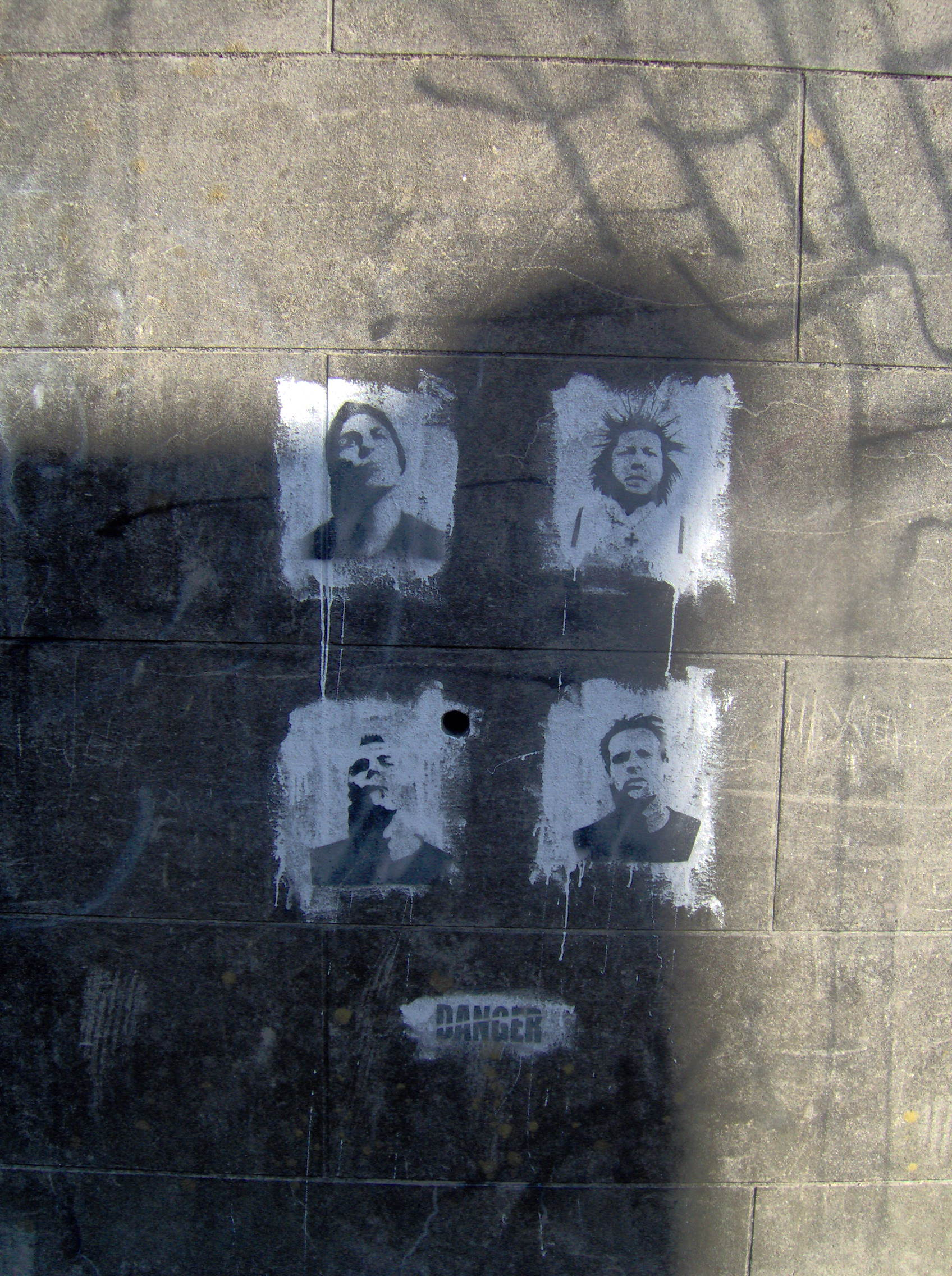 A graffito that represent the punk band Rancid in Harajuku, Tokyo